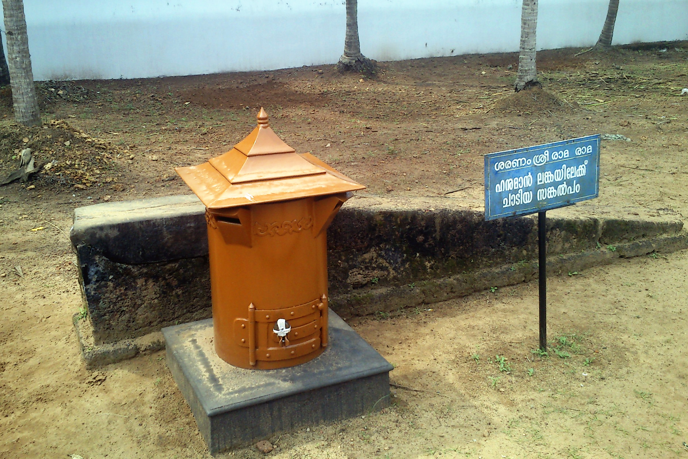 The stone at Alathiyoor temple symbolizing Hanuman's jump to Lanka